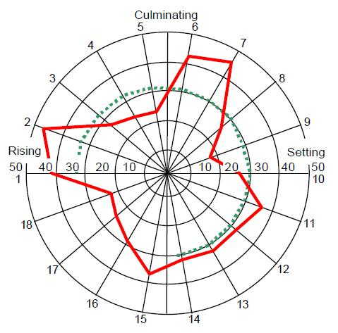 Diurnal distribution of successful athletes.